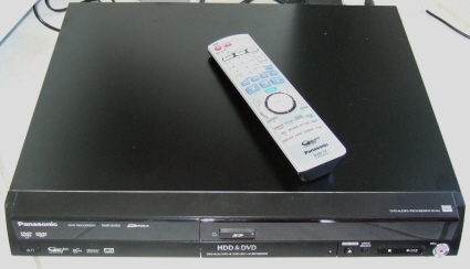 Panasonic HDD & DVD recorder